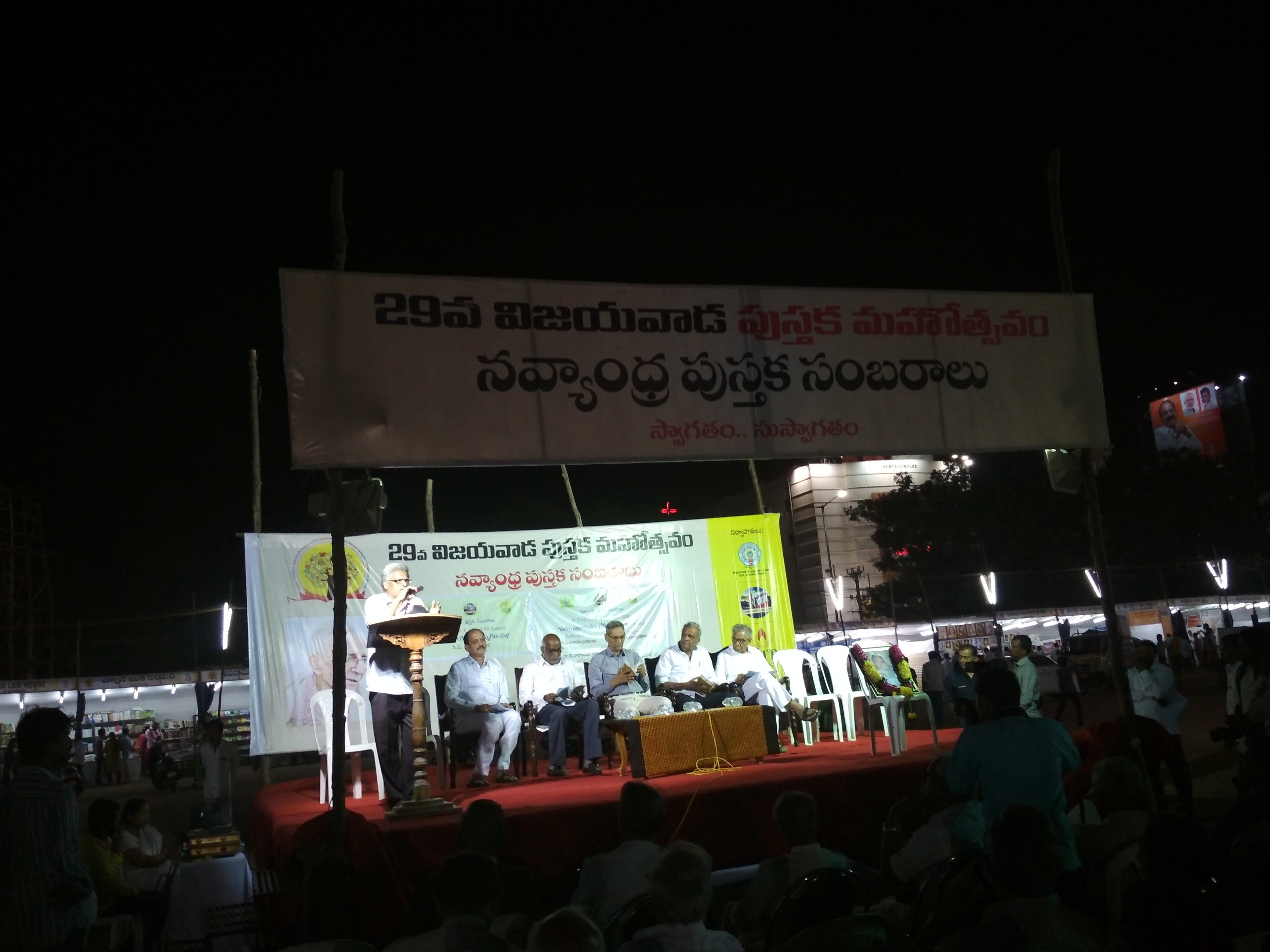 Inaugural program of Navyandhra Pustaka Sambaralu, Vijayawada